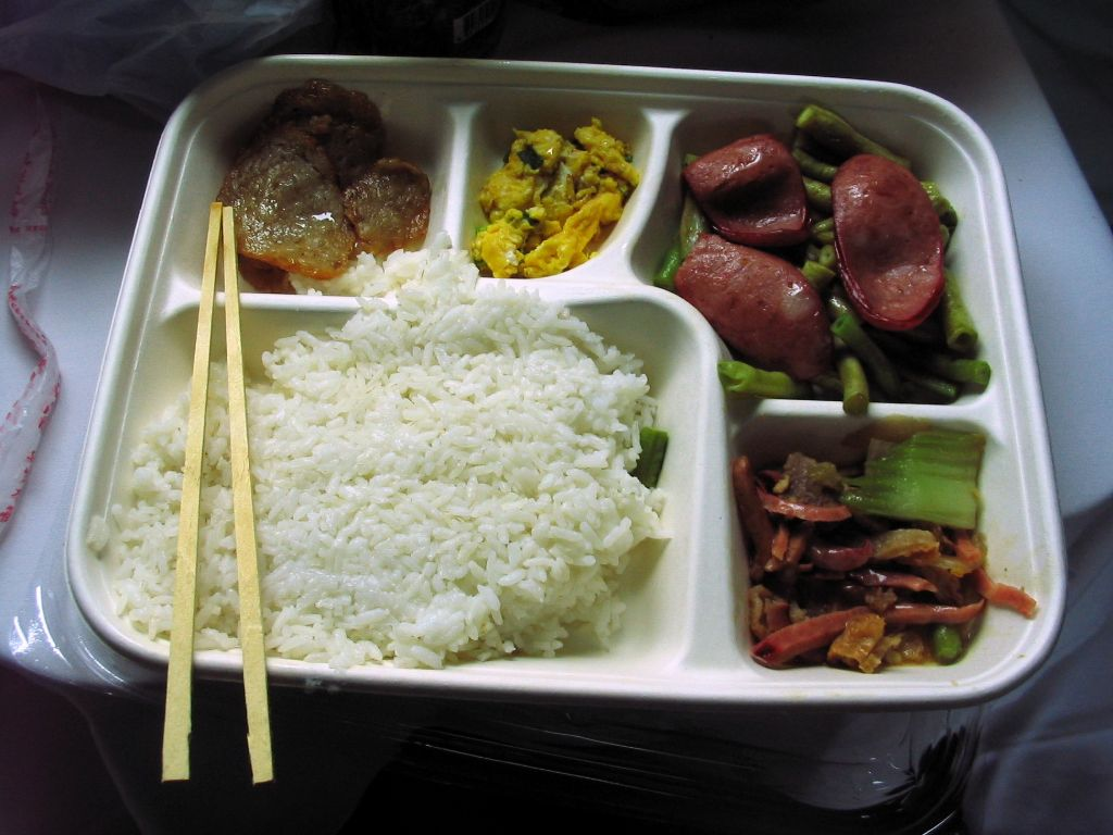 Ekiben sold at CNY15 on train in Mainland China